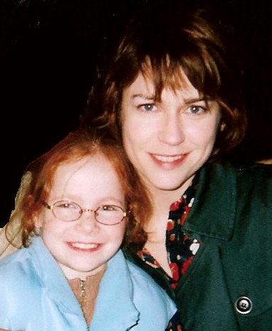 On the set of The Girl from the Chartreuse in Grenoble (France). Actresses Bertille Noël-Bruneau and Marie-Josée Croze during lunchtime on a shooting day.